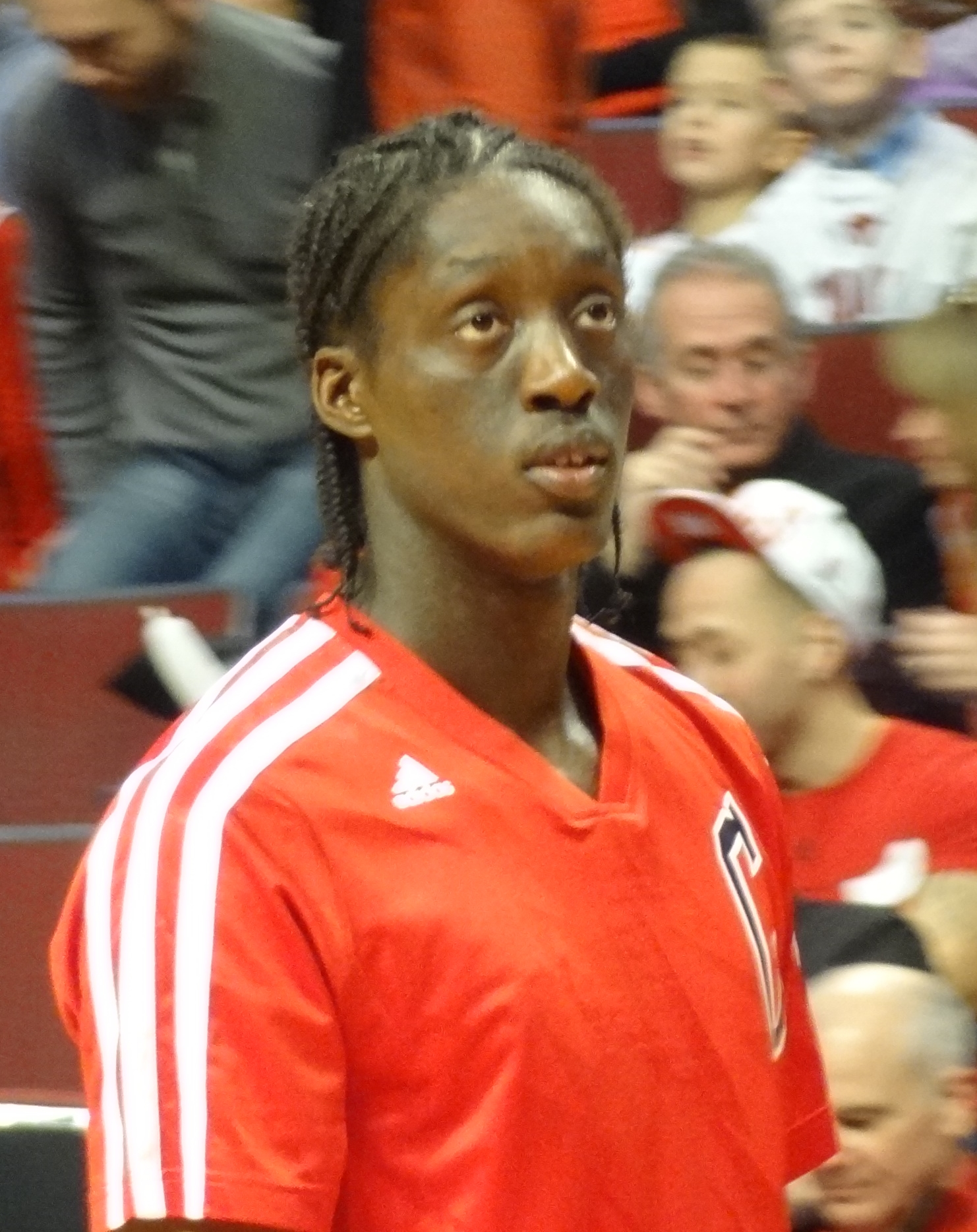 Tony Snell at the Bobcats-Bulls game in Chicago on January 11, 2014